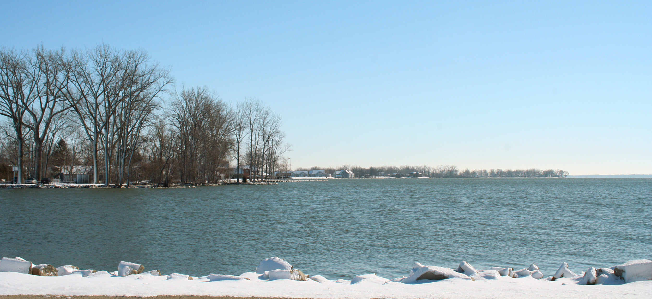 Grand Lake at Celina, Ohio. Photo shot by Derek Jensen (Tysto), 2006-02-06